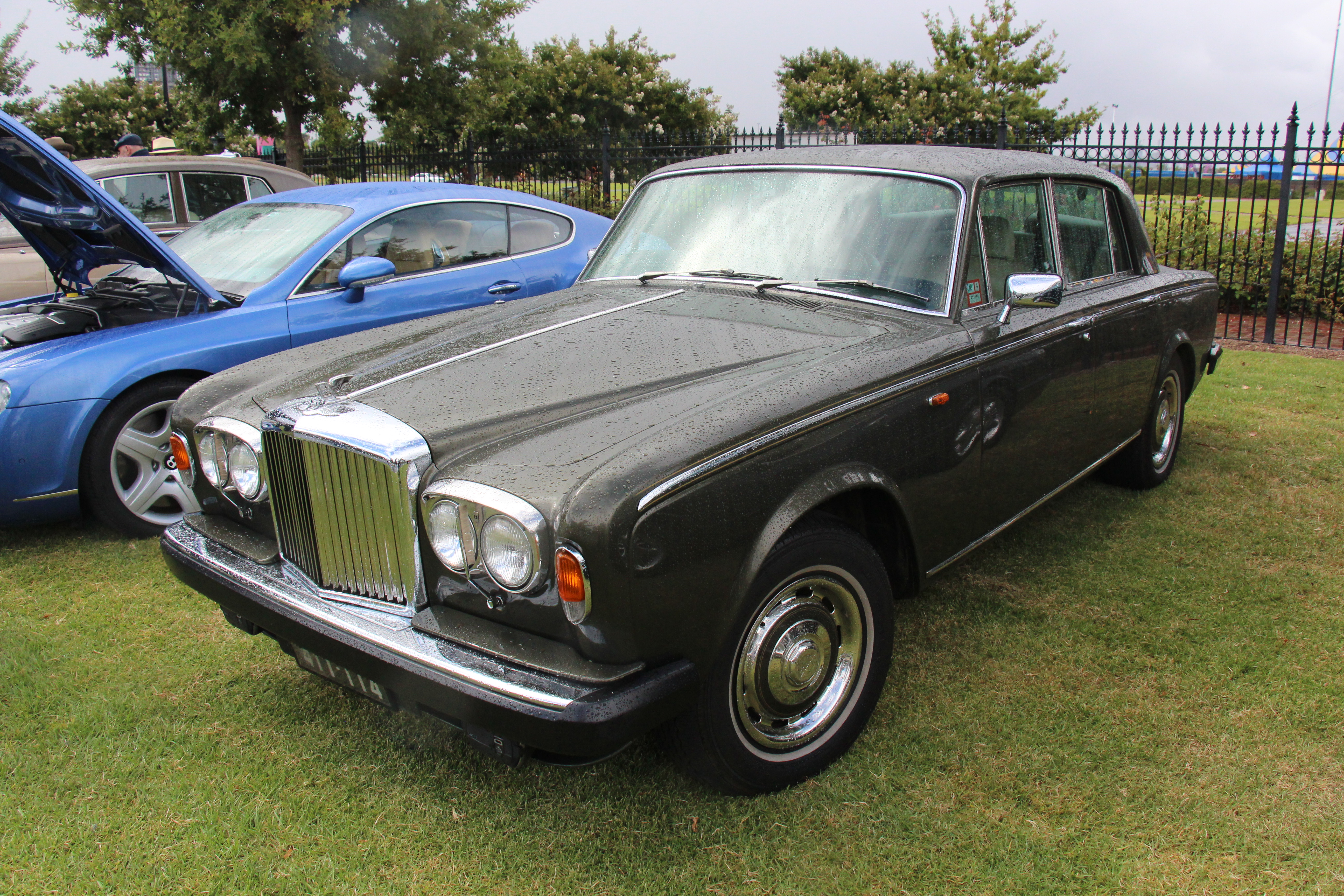 The 1965-80 T Series Bentleys replaced the S Series, they were Bentleys version of the Rolls Royce Silver Shadow, technically identical, the Bentley had slightly lower bonnet and a simpler and lighter grille. The newly designed T Series Bentley and the Silver Shadow Rolls Royce got many new features such as disc rather than drum brakes, and independent rear suspension, rather than the outdated live axle design. In 1977, the model was updated the T2 Bentley and the Silver Shadow II in recognition of several major changes, most notably rack and pinion steering, bumpers were changed from chrome to alloy and rubber and the small grilles mounted beneath the headlamps were deleted. Engine; 172hp 6.2 litre V8 (189hp 6.75 litre V8 from 1970)